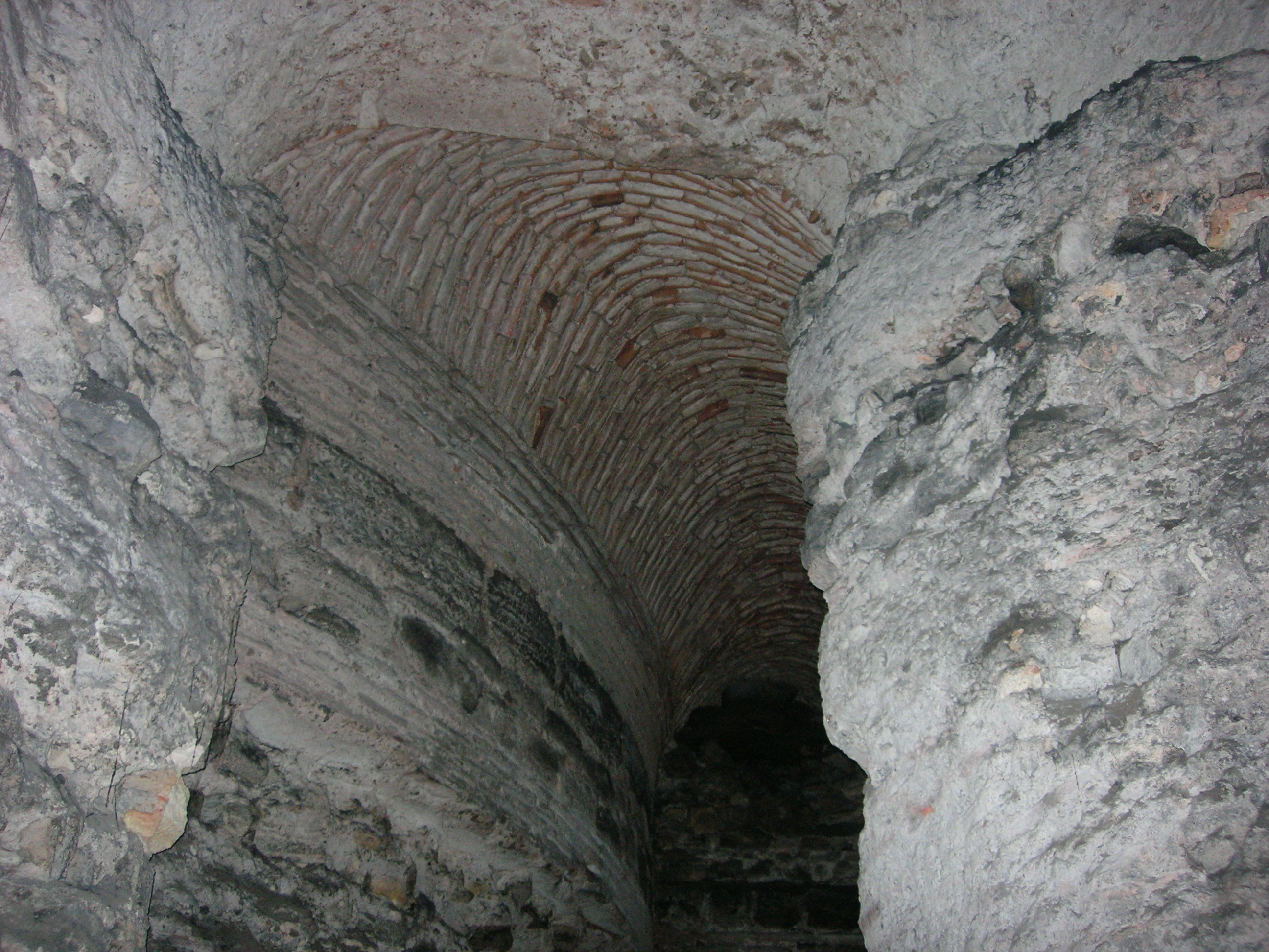 The Martyrion of St. Karpos and Papylos. Particular of the corridor vault.